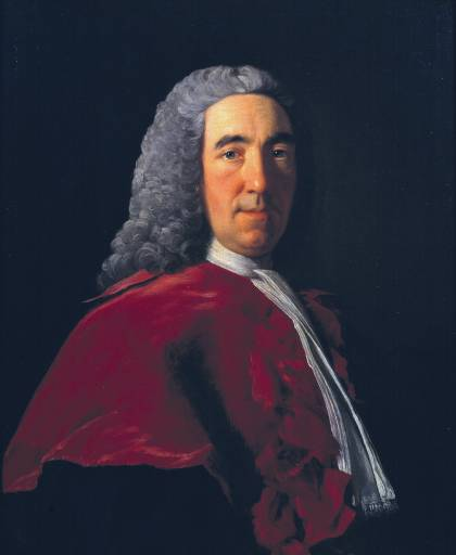 Portrait of Alexander Boswell, Lord Auchinleck (1706-1782)